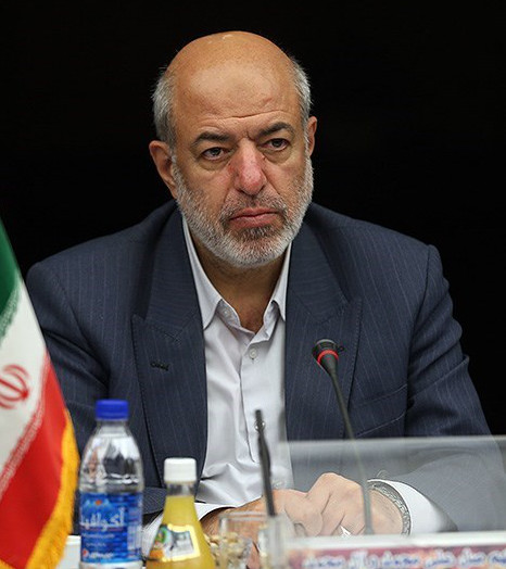 Chitchian (Minister of Energy)in meeting with Minister of Energy of Armenia.